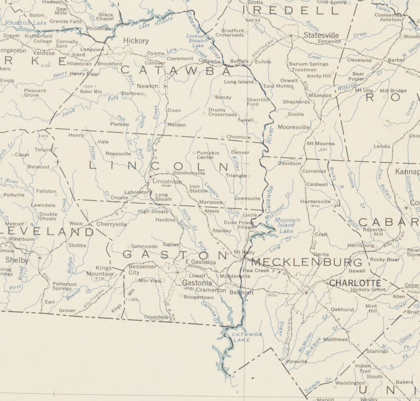 Shows counties, cities and towns, railroads and natural features. Relief shown by spot heights. "Compiled, edited, and published by the Geological Survey. 1927 North American datum. Lambert conformal conic projection based on standard parallels 33⁰ and 45⁰."